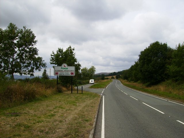 The A489 at Snead on the Welsh - English border.